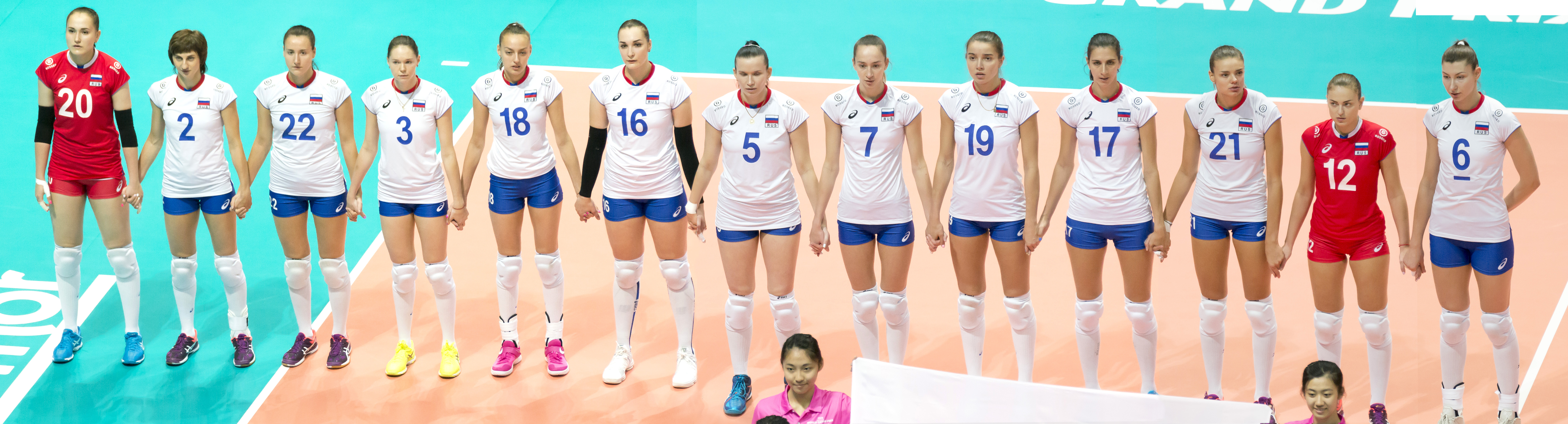 RUSSIA team 2. Maria Frolova 3. Irina Filishtinskaya 5. Julia Kutyukova 6. Irina Zaryazhko 7. Anna Lazareva 12. Alla Galkina 16. Irina Voronkova 17. Ekaterina Polyakova 18. Kseniia Ilchenko Parubets 19. Ekaterina Evdokimova 20. Angelina Sperskaite 21. Ekaterina Efimova 22. Tatiana Romanova